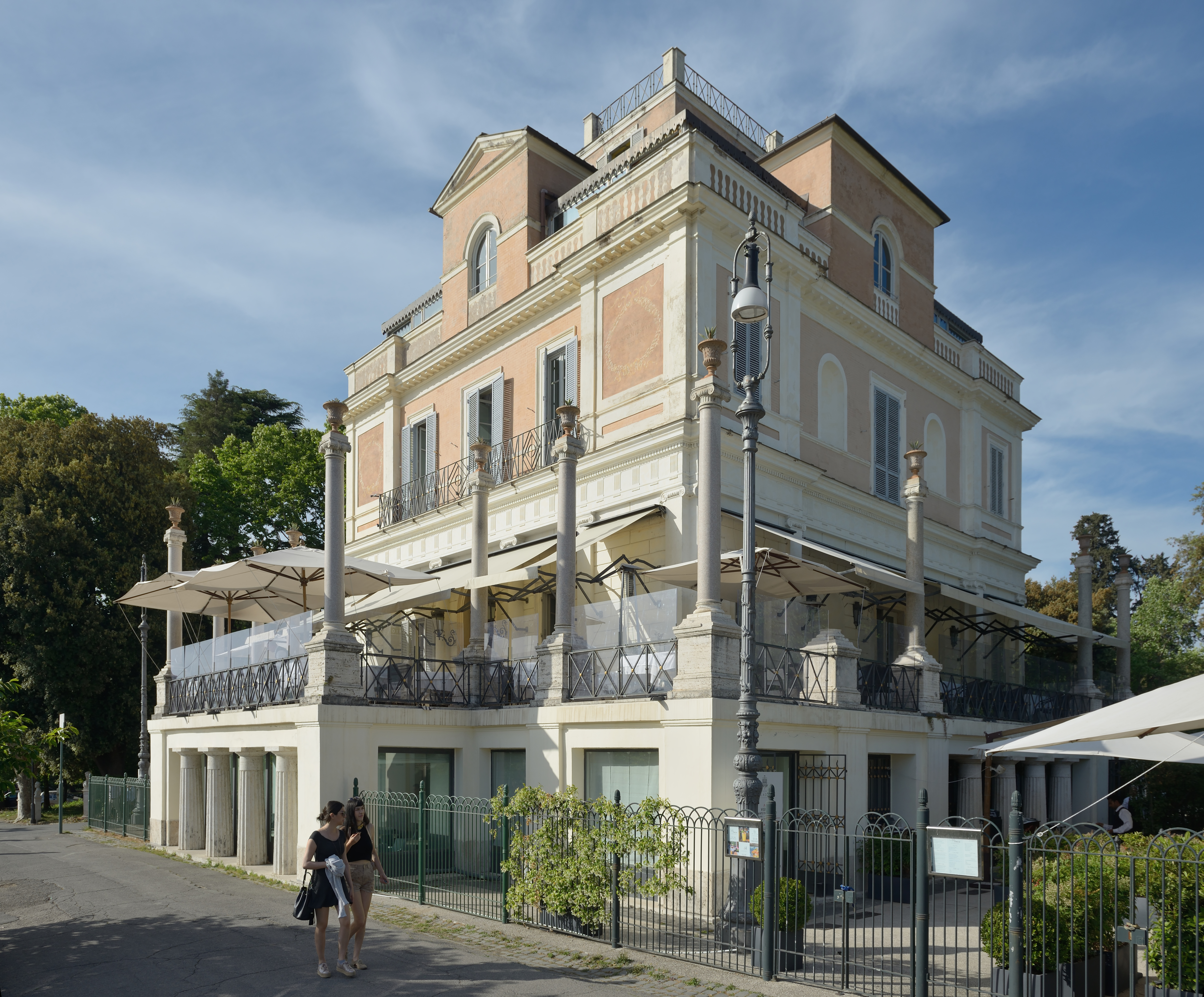 The Casina Valadier in the Villa Borghese gardens in Rome.